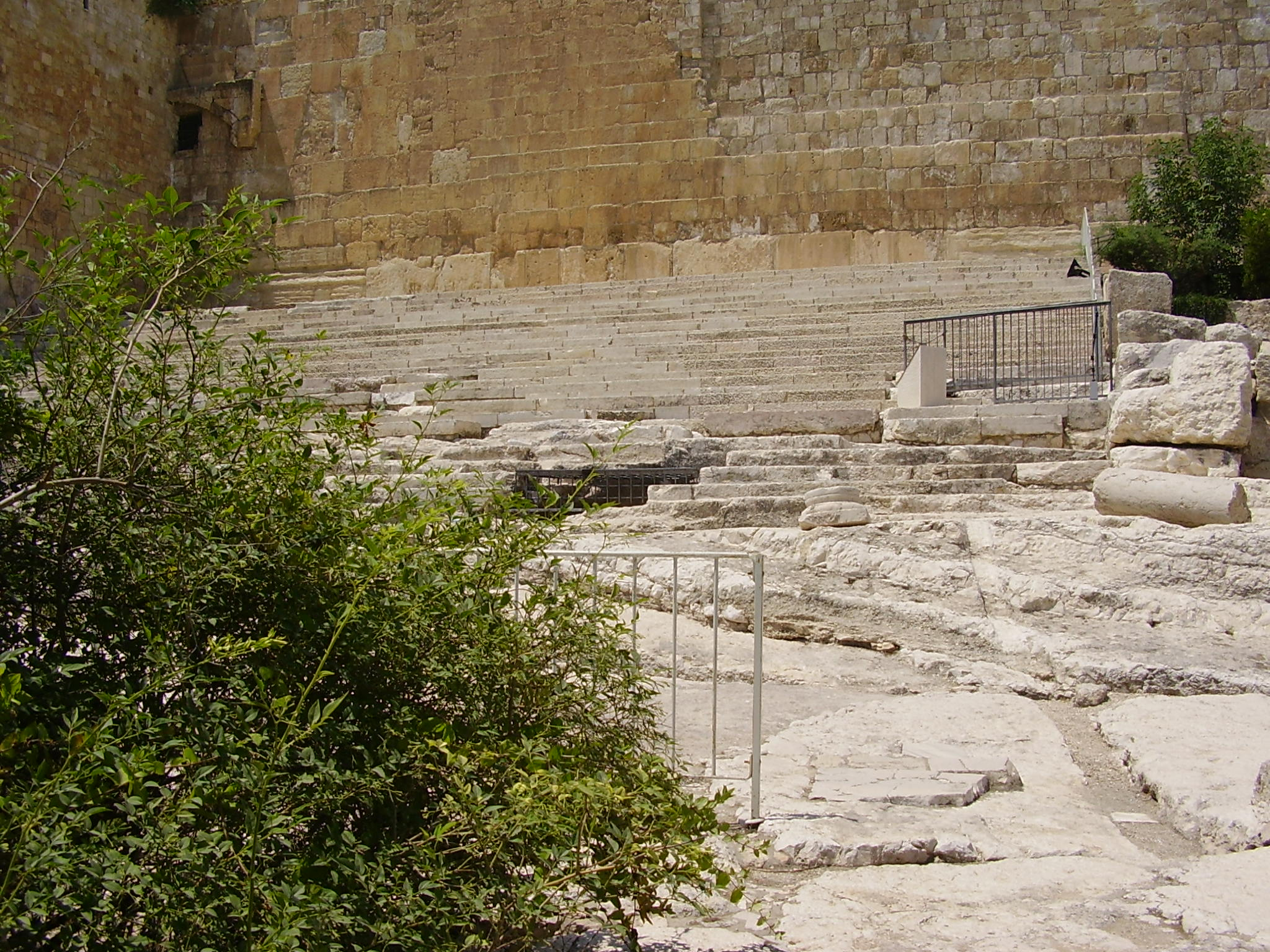 hulda\'s steps in southern wall of old jerusalem